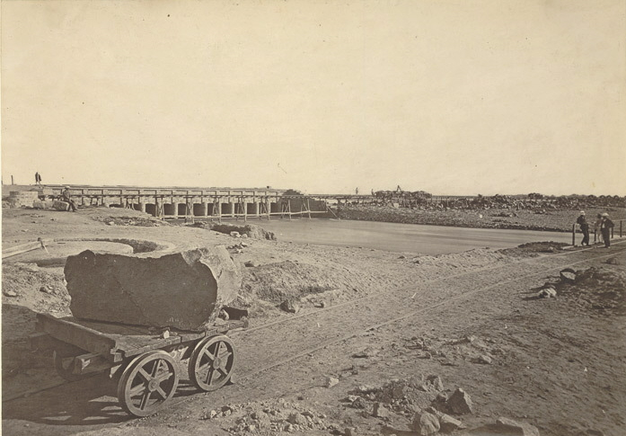 Image of Agra Canal, Headworks. Unknown Photographer c. 1871-73. Photograph from Crofton Collection: 'Public works including the Manora Breakwater and the River Son canal system' taken by an unknown photographer, c.1871-73. The Agra canal, opened in 1874, was a major civil engineering project and the water was used for both transportation and irrigation. The canal drew its water from the River Jumna at Okhla, about 10km from Delhi, and from there it continued until finally joining the Banganga River about 20 km from Agra. Irrigation waters from the canal helped to lessen the impact of famine in the area by increasing cultivation. As irrigation was the prime objective of the canal, navigation on the canal was stopped in 1904. Downloaded from the British Library website by Fowler&fowler«Talk» 03:38, 19 September 2007 (UTC)